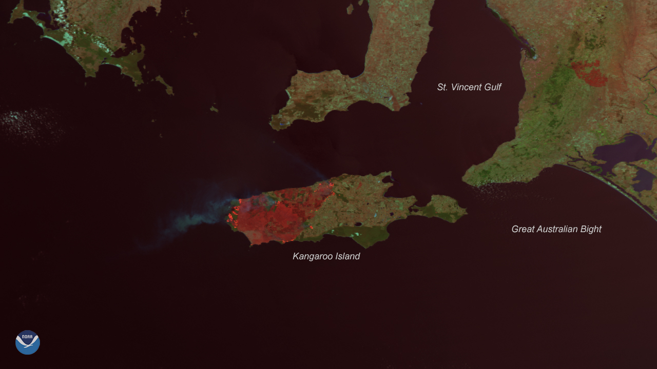 Roughly half of Kangaroo Island, off the southern coast near Adelaide, has been destroyed by fire. Imagery captured Jan. 6, 2020 via NOAA-20, high resolution bands 4, 2, 1.